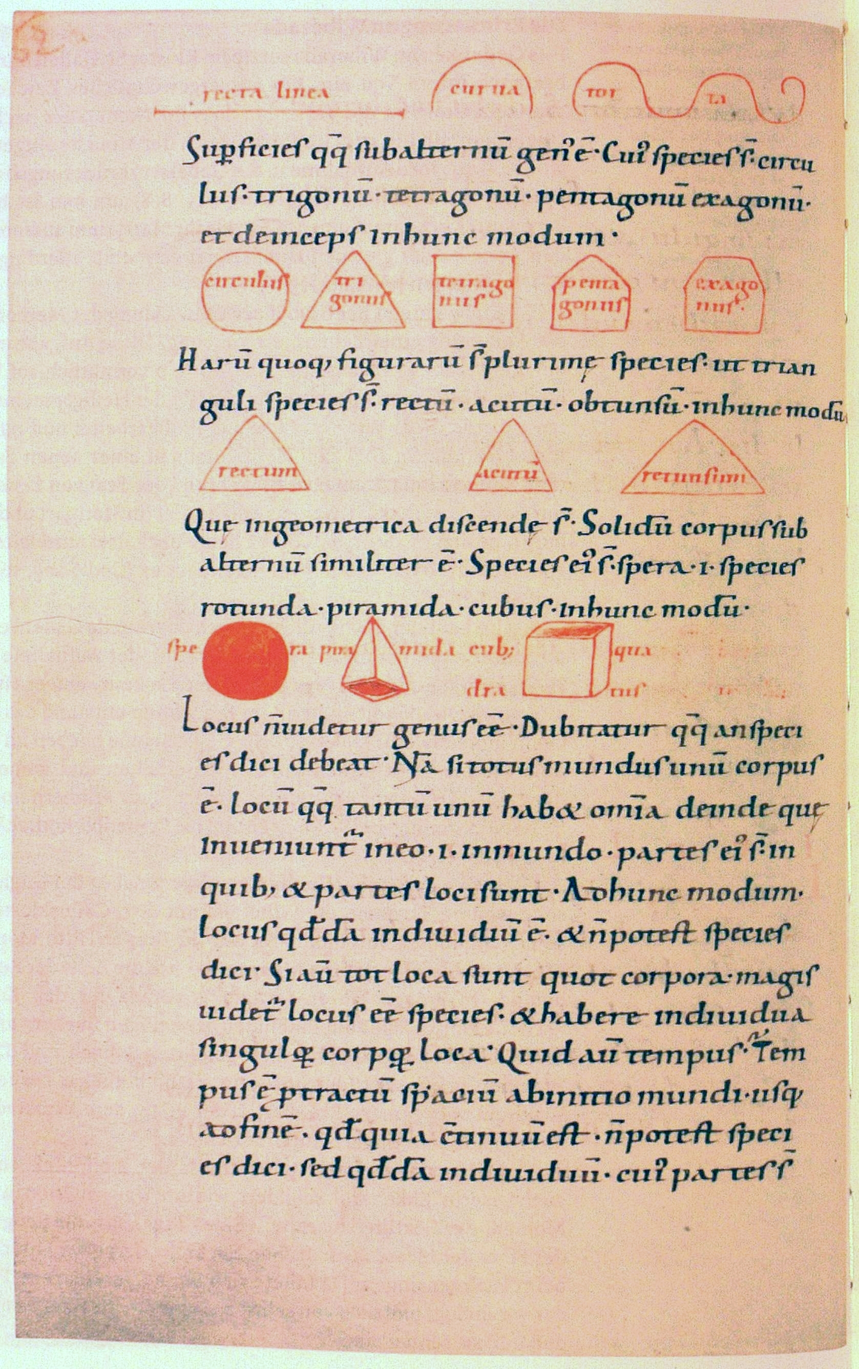 Drawing and explanation of geometrical figures according to Aristotle in Notker’s commentary on the “Categories”. Manuscript: St. Gallen, Stiftsbibliothek, Cod. Sang. 818, page 62.